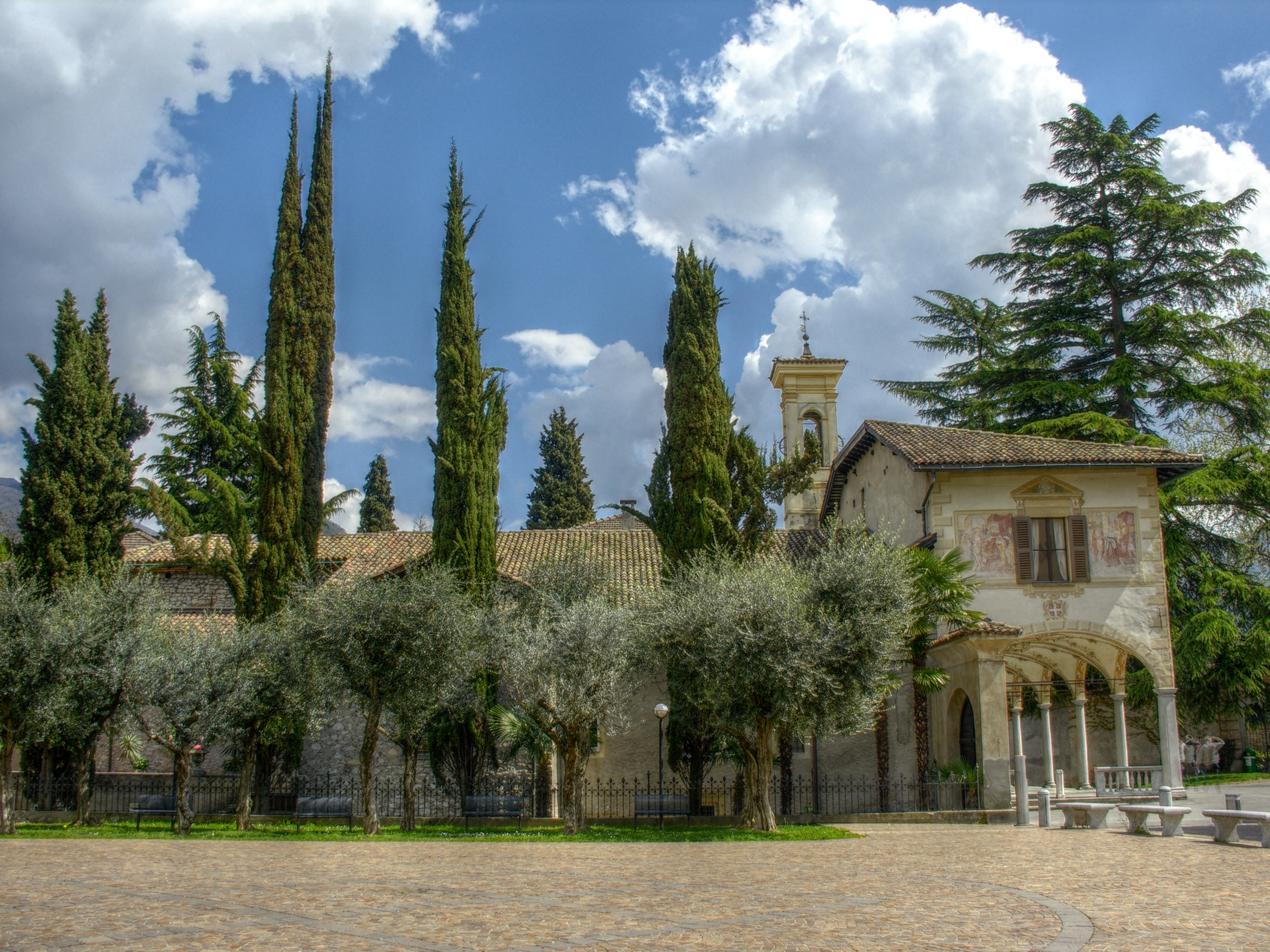 Lugano, Tessin, Switzerland - Santa Maria di Loreto church - Side view